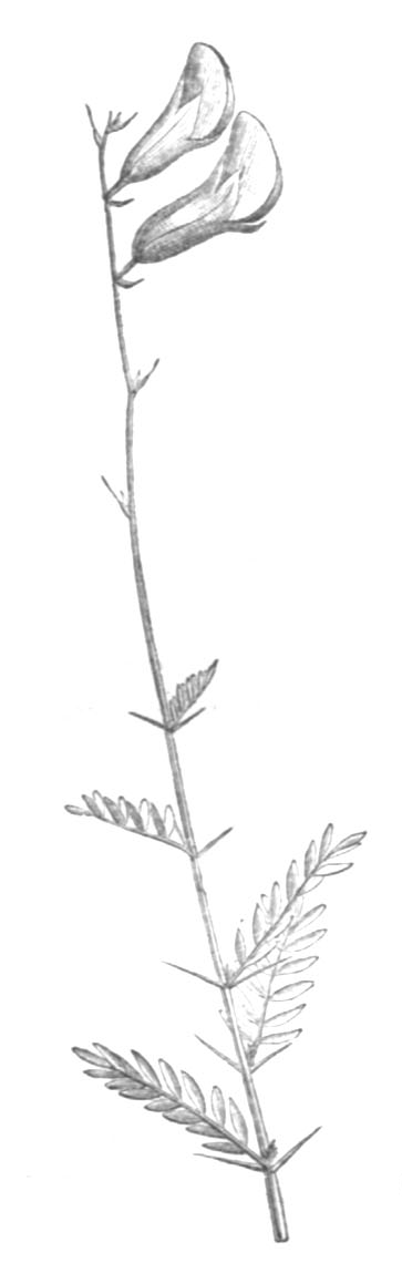 Illustration from book